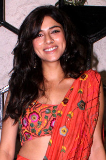 Sapna Pabbi graces Shweta Tripathi’s wedding bash, Jun 28, 2018